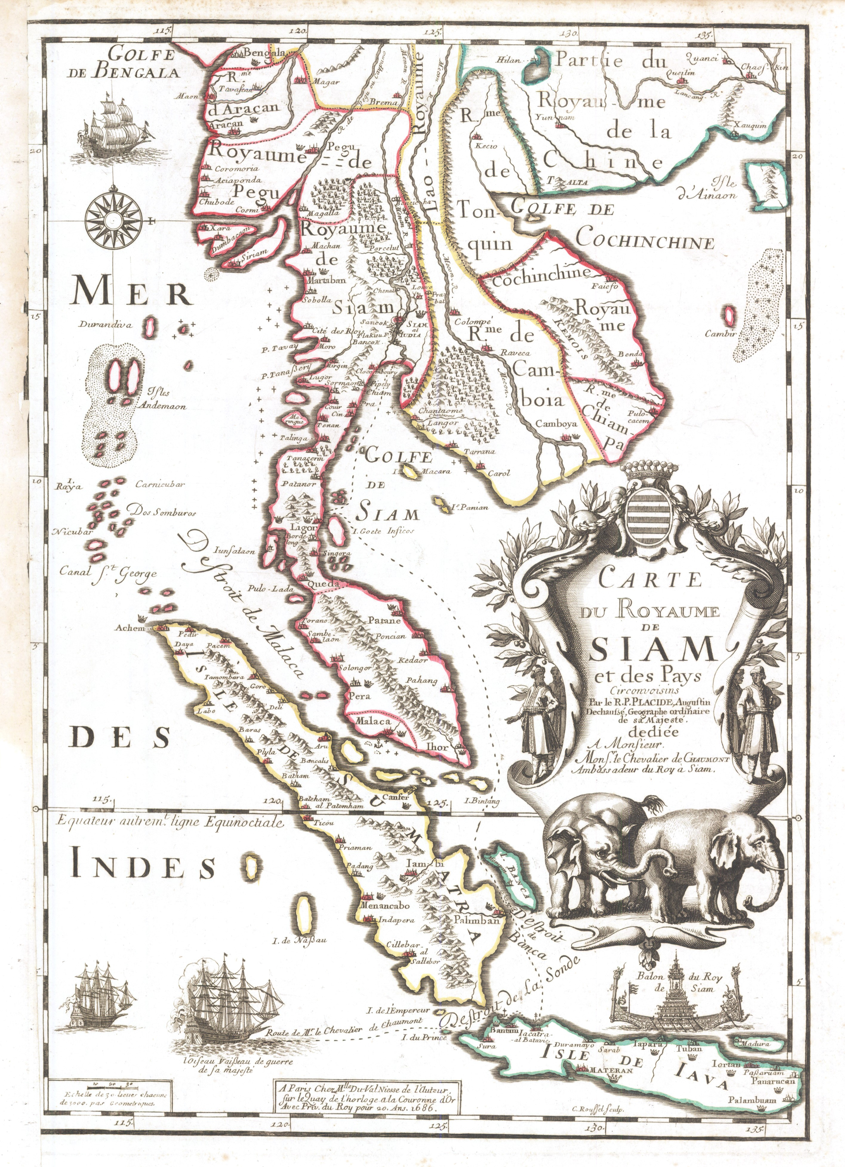 Map of the Kingdom of Siam and its neighbouring countries